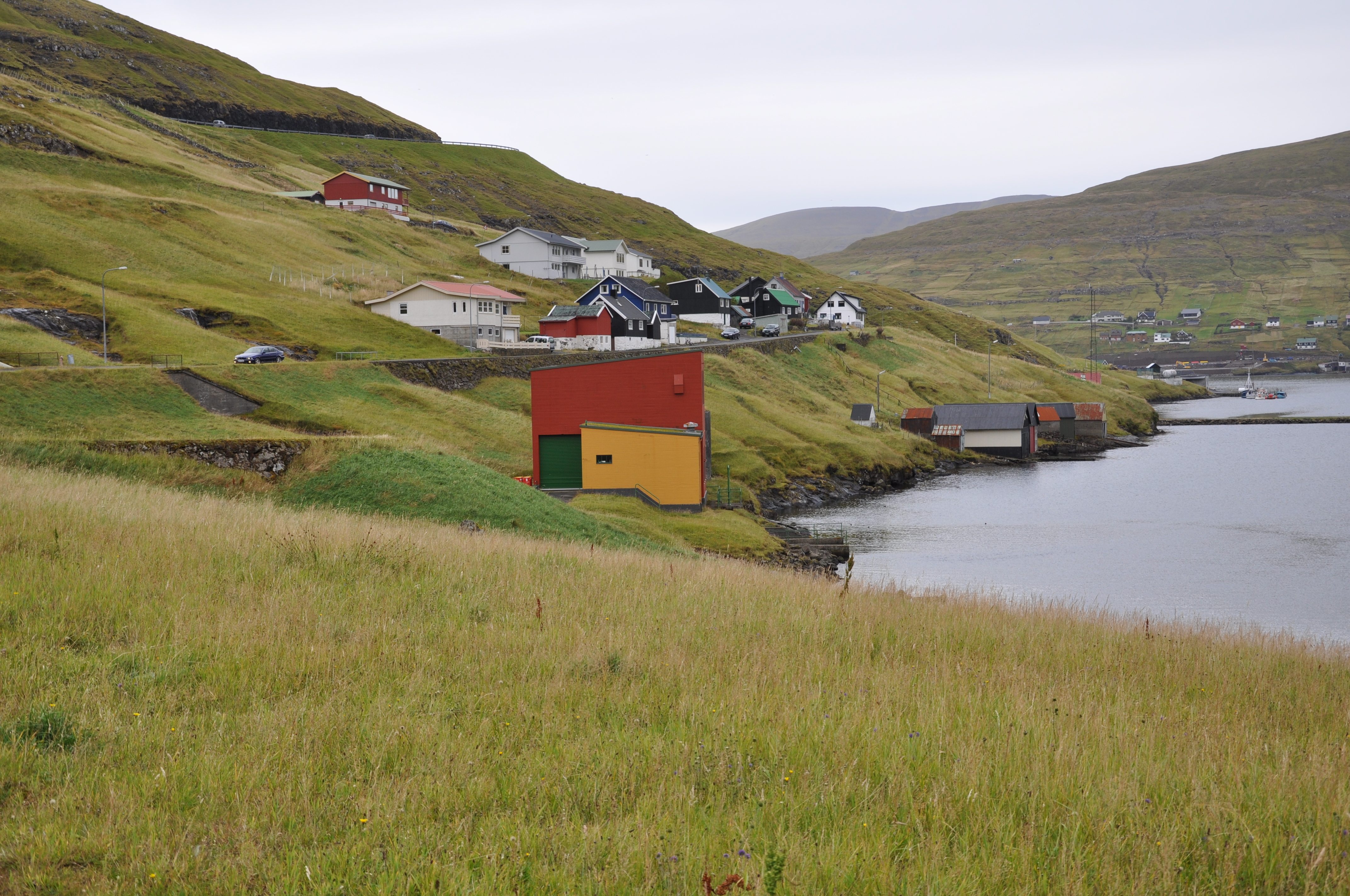 Kraftwerk Heygaverkid in Vestmanna on the Färöer Islands.